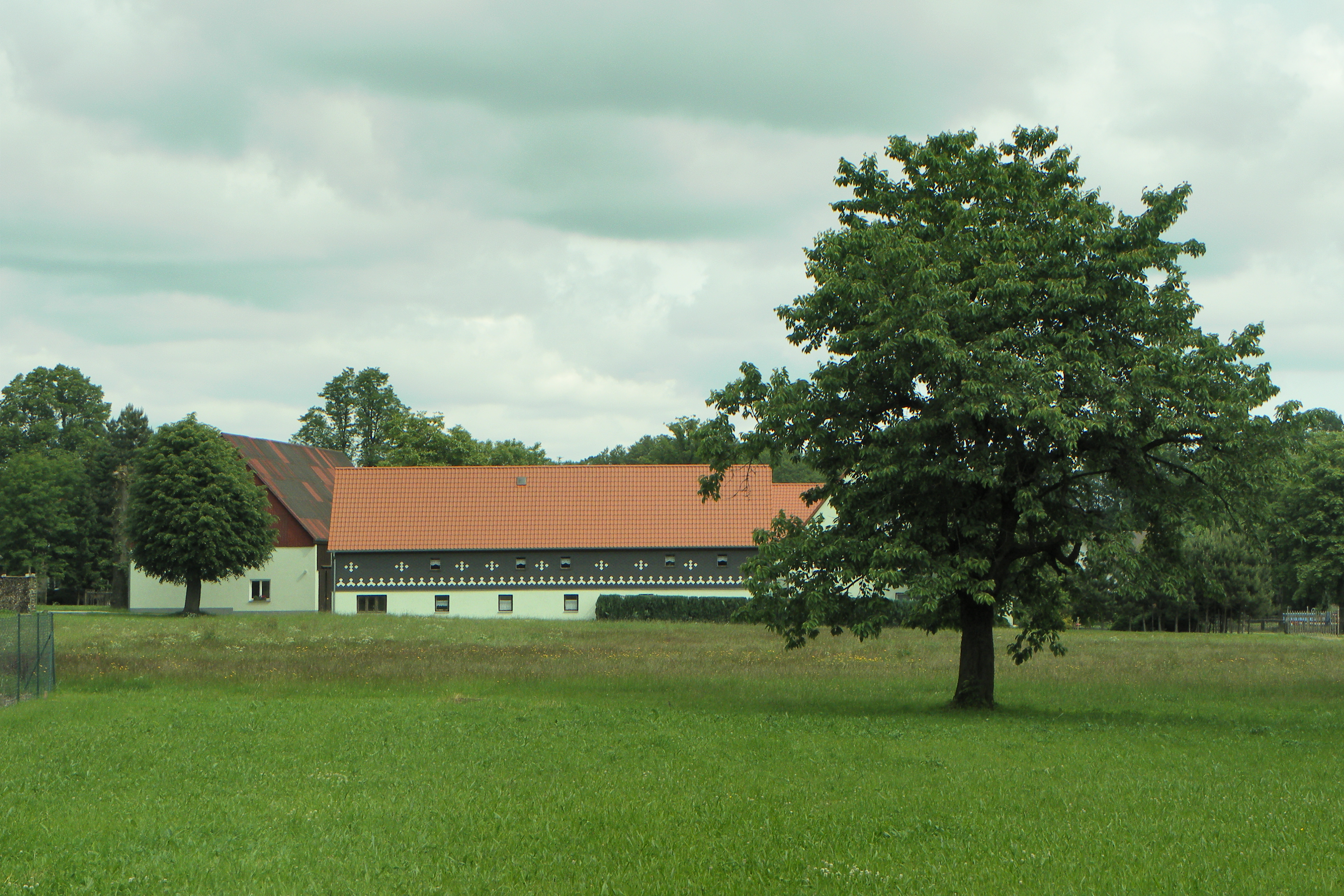 Birth place of agricultural scientist Bruno Steglich in Kleindrebnitz